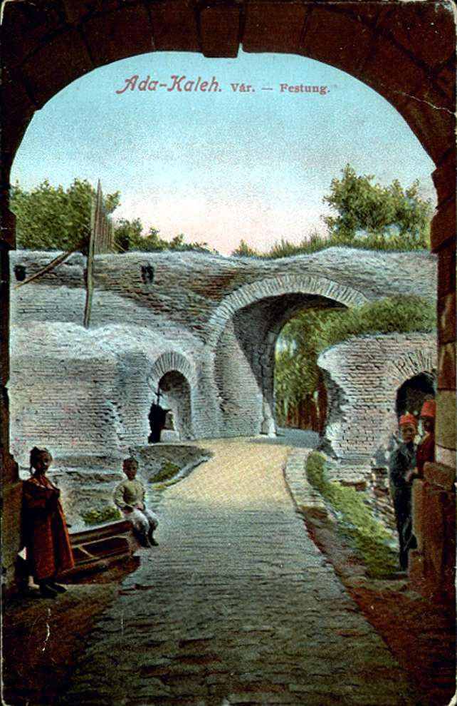 fort of Ada Kaleh